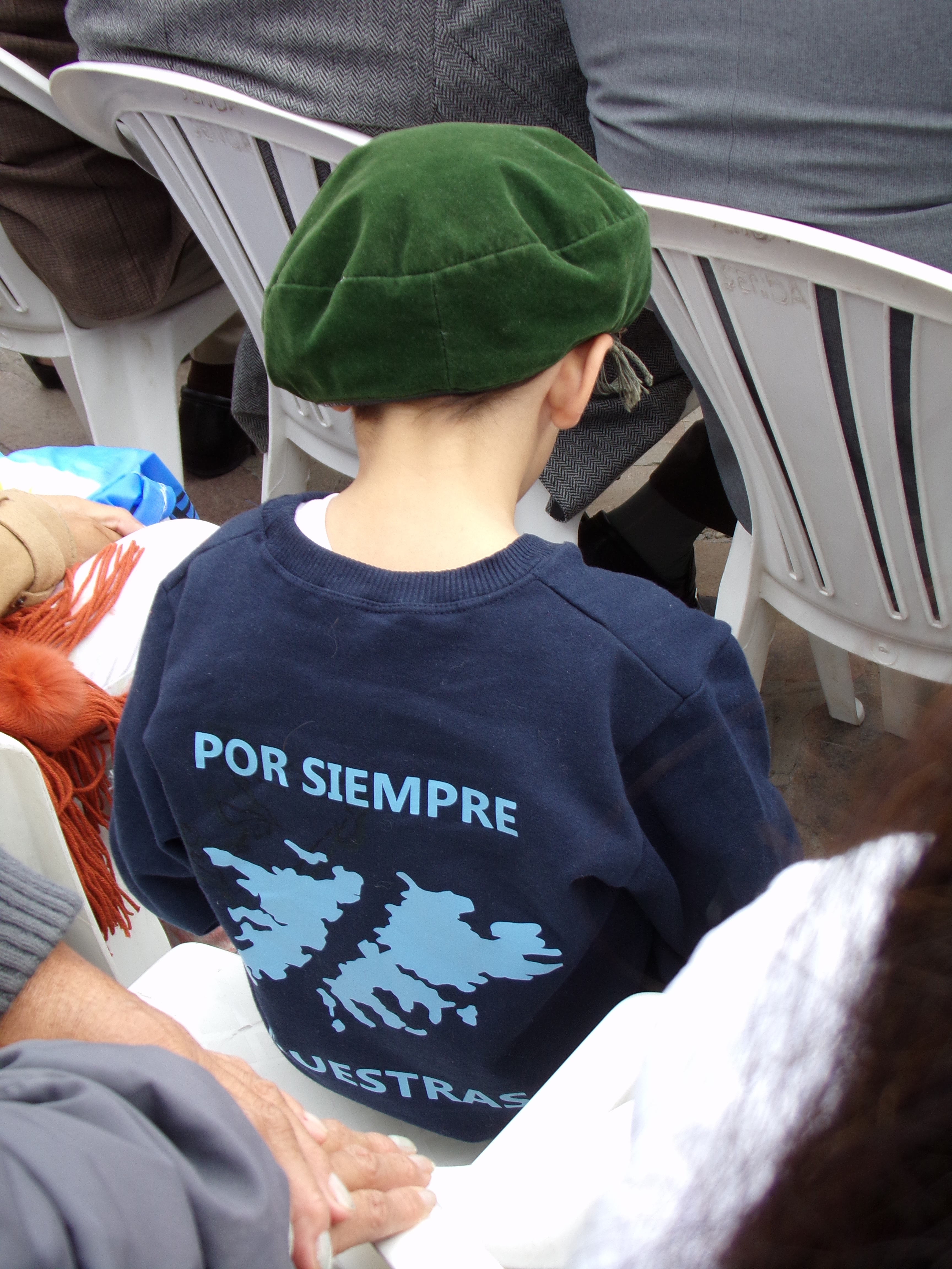 Argentine child honoring Malvinas Islands